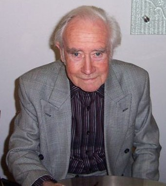 English actor Peter Tuddenham, voice of the "Orac", "Slave", and "Zen" computers in the Blake's 7 television programme, at the Blake's 7 Series 2 DVD launch.